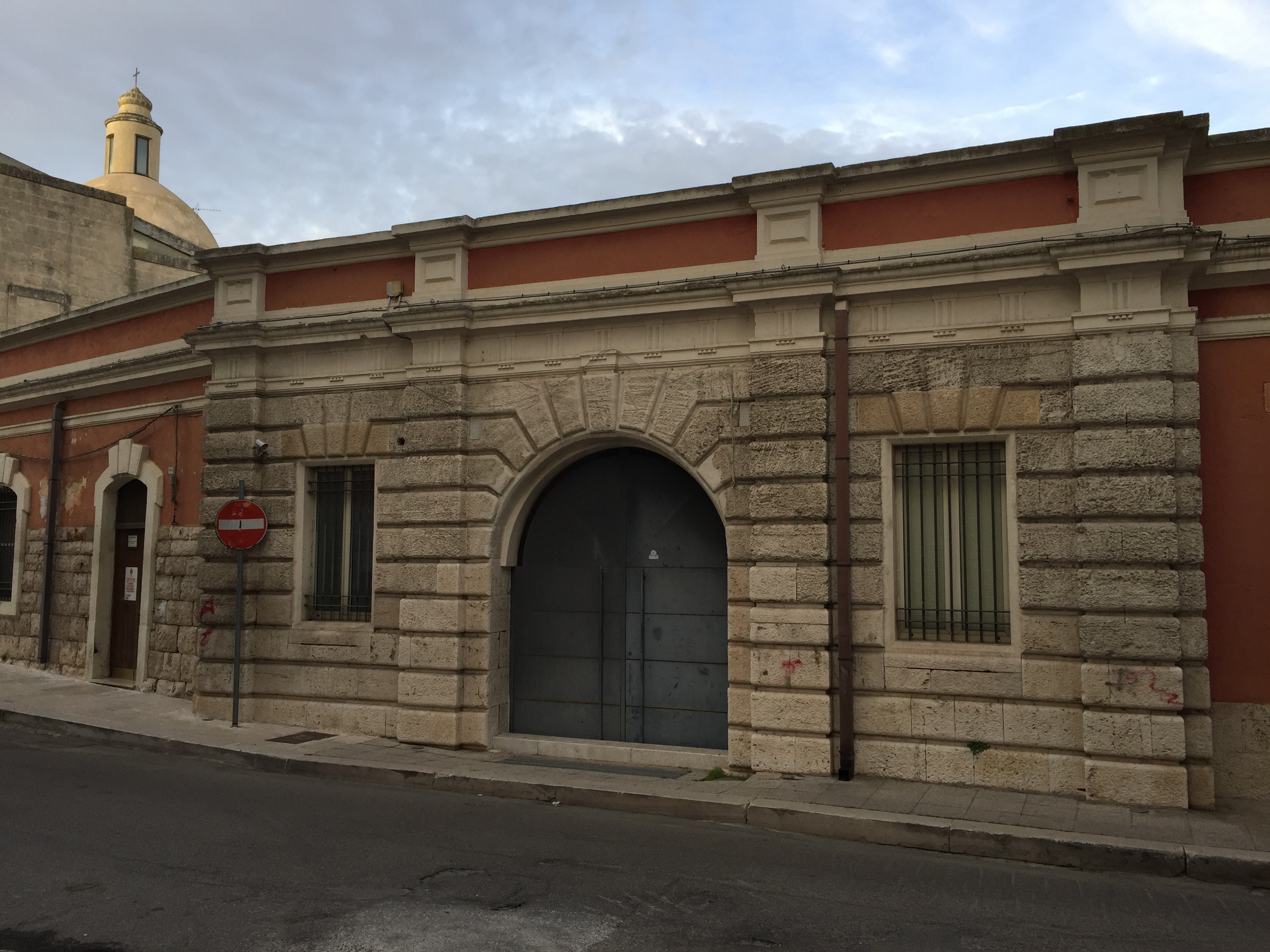 Chiesa di Sant'Agostino (Altamura) - Outside - 4 (ex-mattatoio comunale)